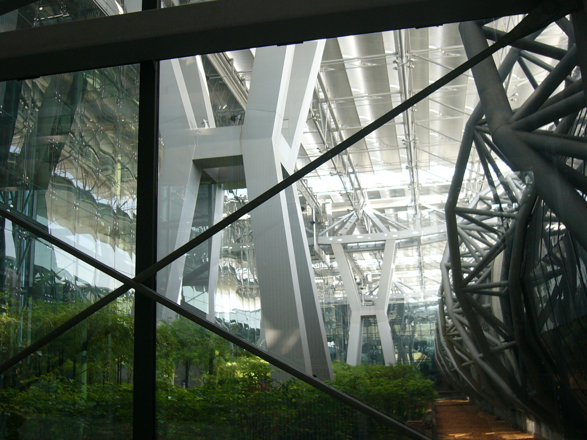 Atrium of Suvarnabhumi International Airport (arrival area).